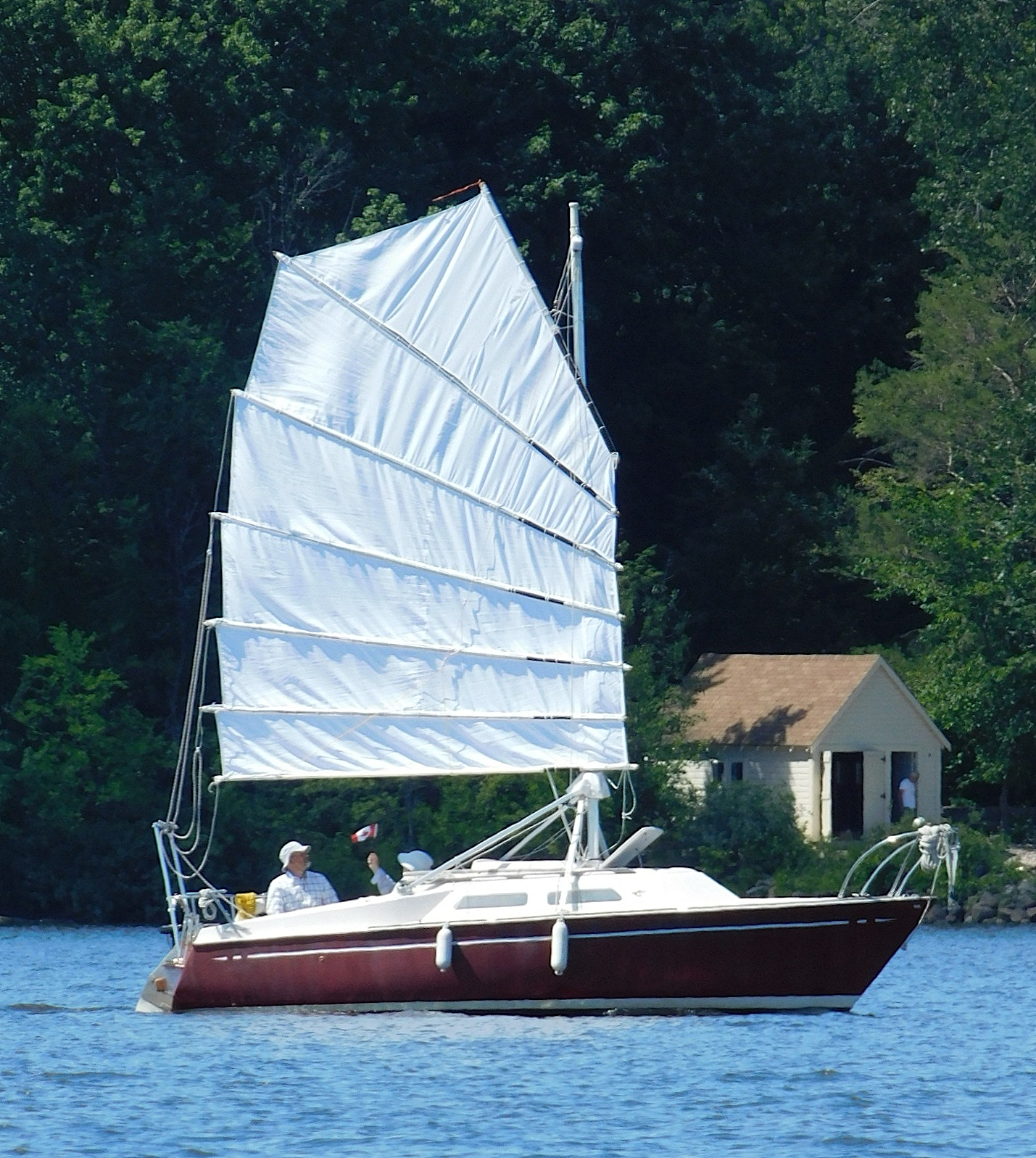 A Paceship PY 23 sailboat named Woodpecker, equipped with a junk rig.